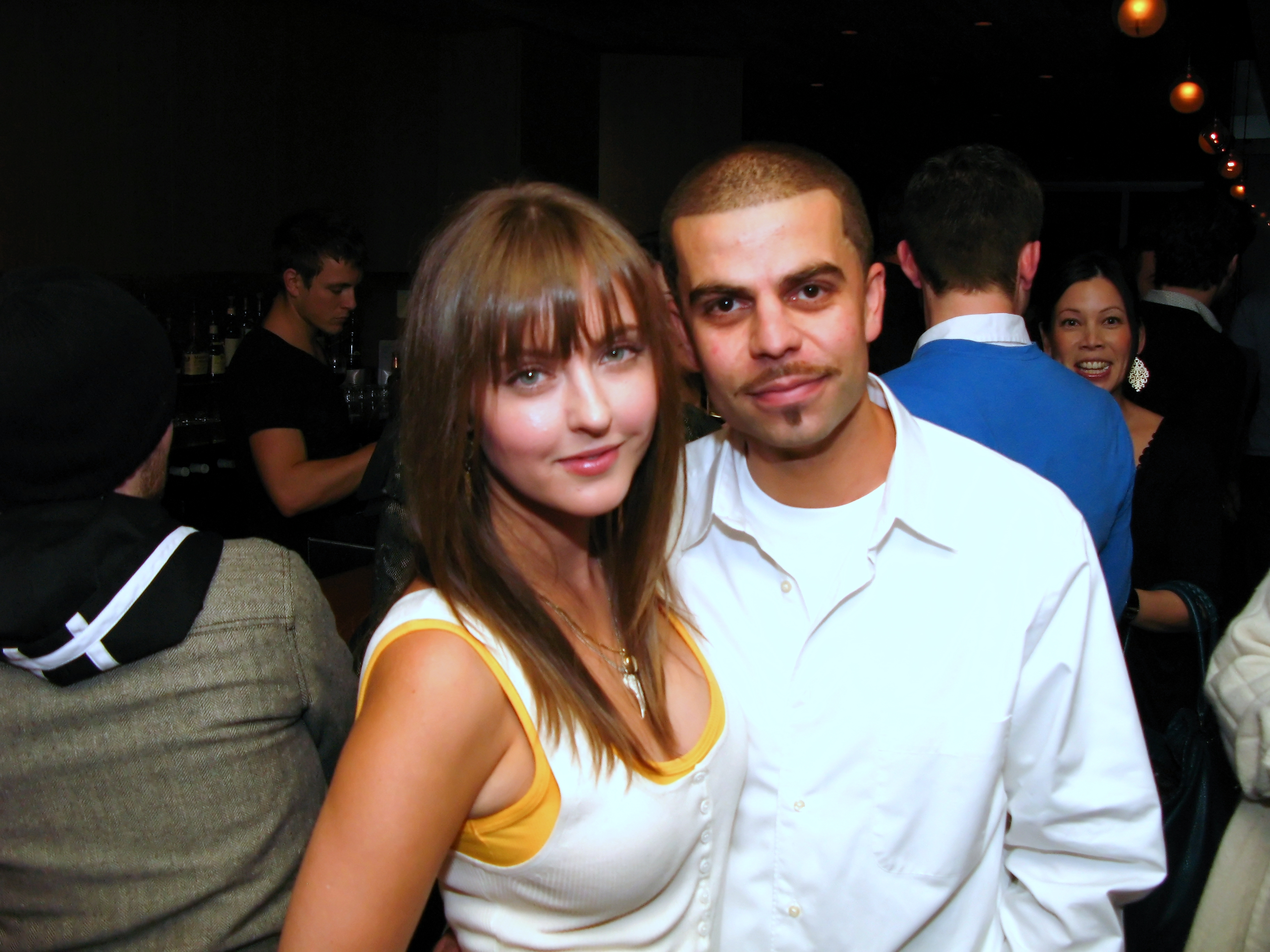 Katharine Isabelle - Favourite People List premiere at 1181 on Davie Street - read more at